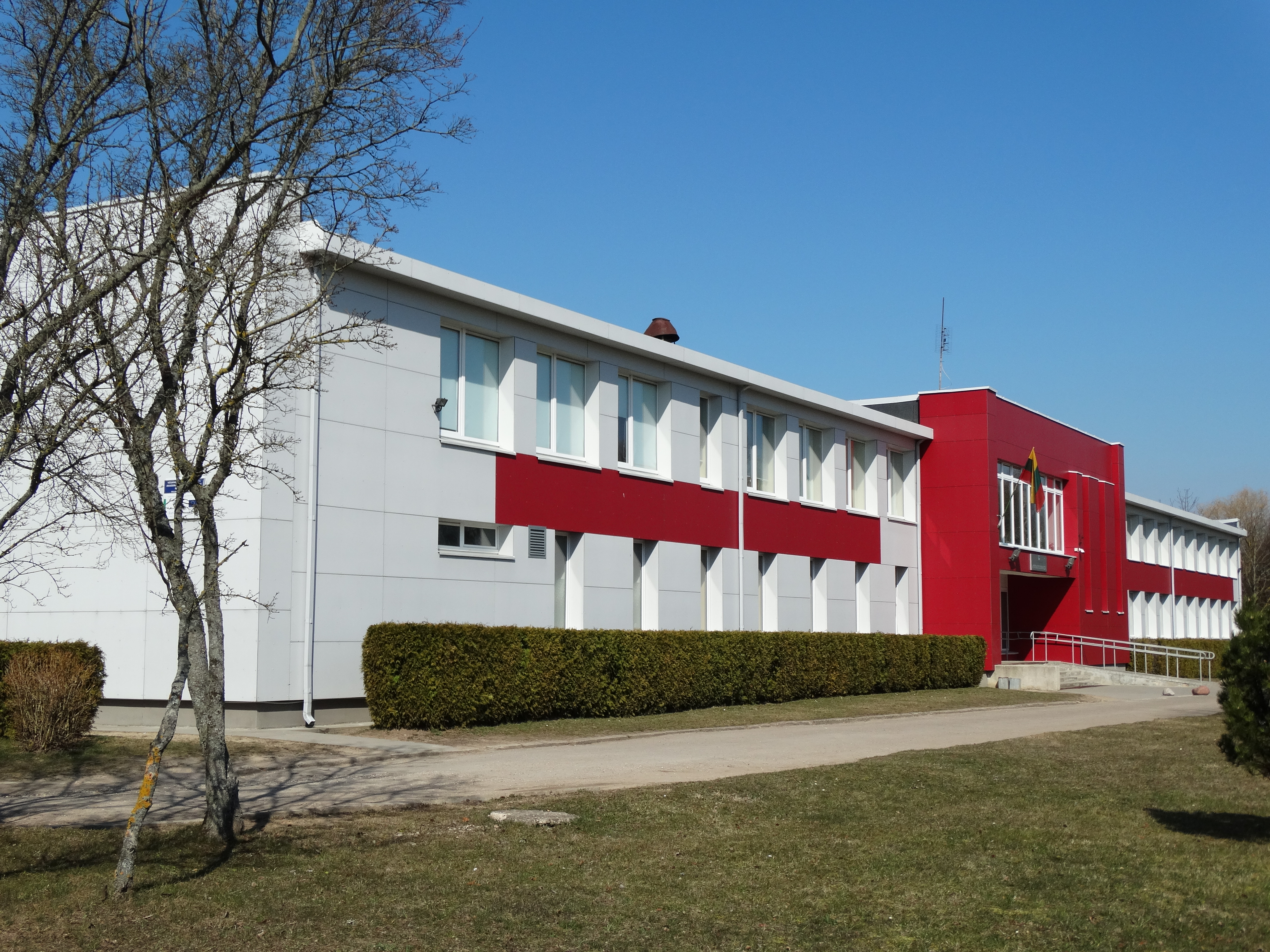 Gymnasium, Akademija, Kėdainiai district, Lithuania